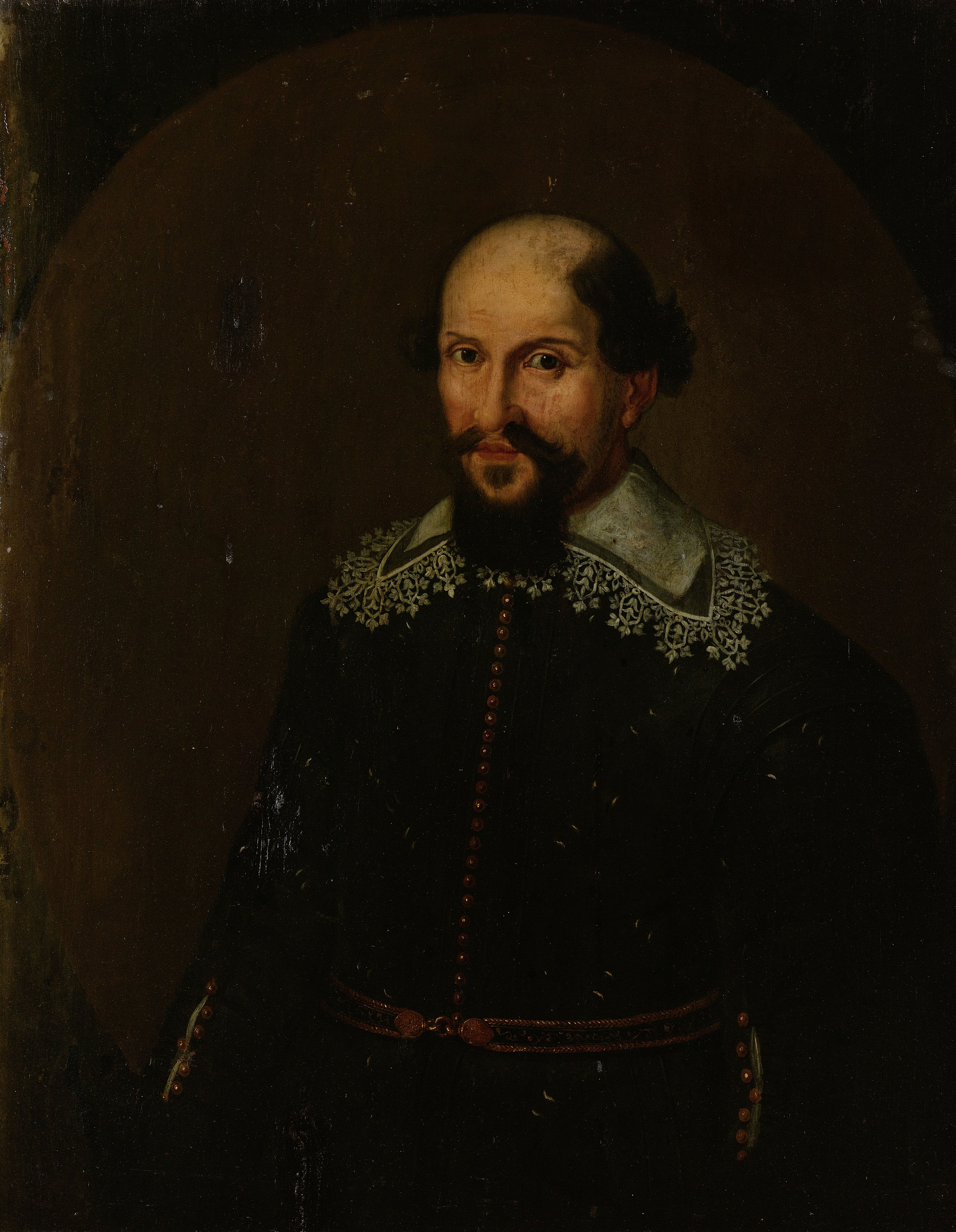 Portrait of Jacques Specx, Governor-General of the Dutch East Indies from 1629 to 1632. Part of the Governors-general series.